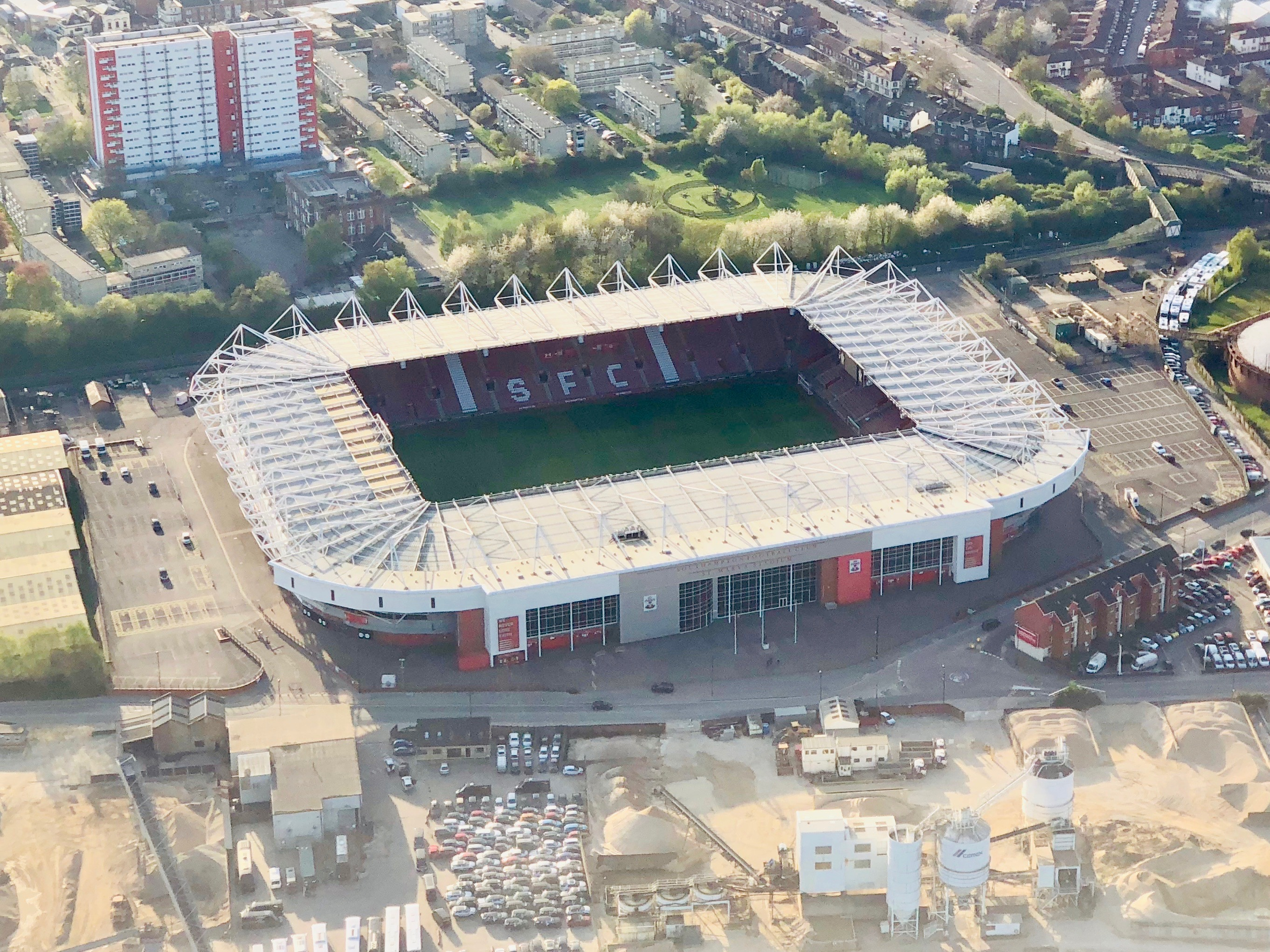 St Mary's Stadium